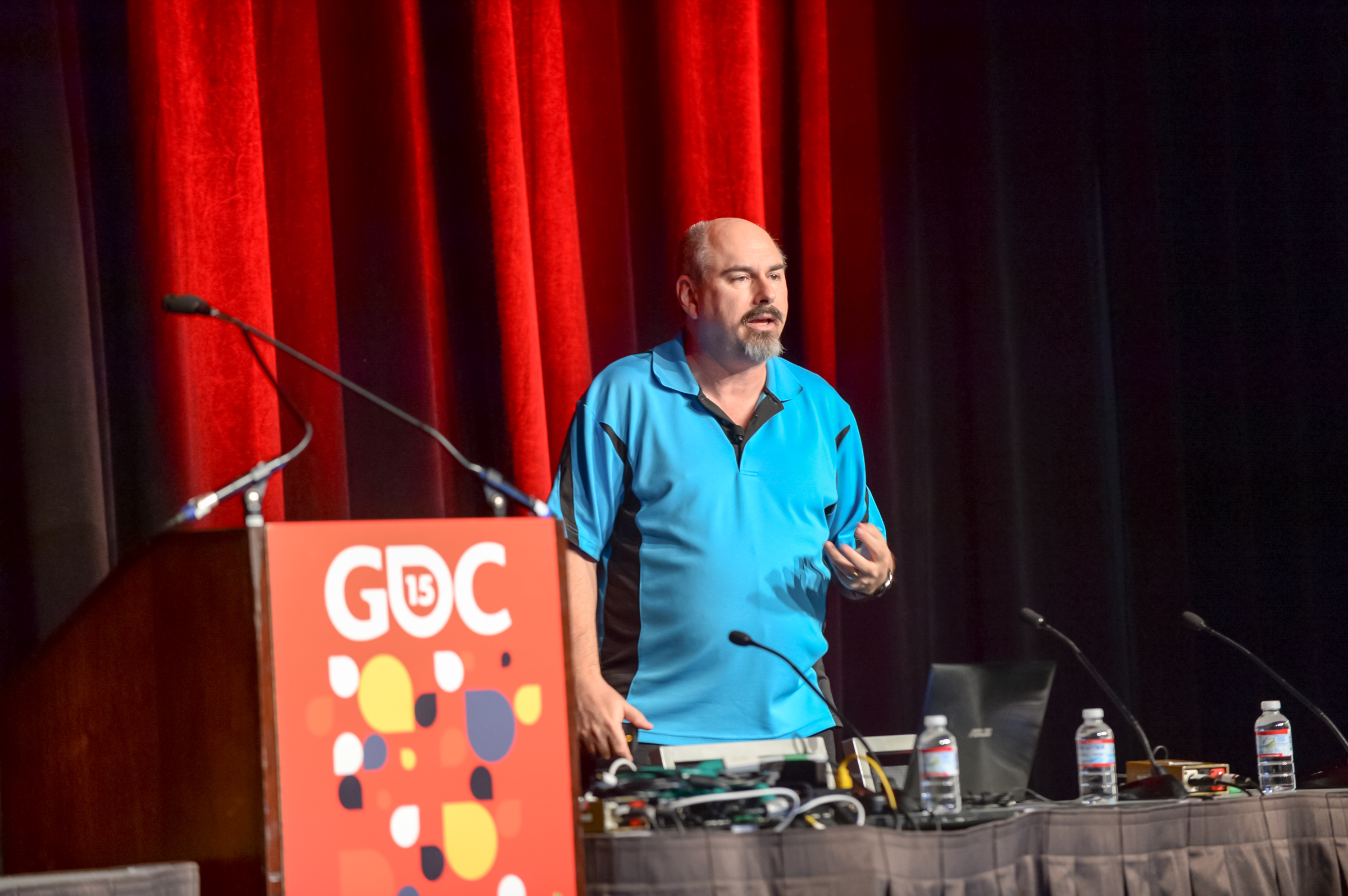 Classic Game Postmortem: Yars' Revenge Howard Scott Warshaw | Licensed Psychotherapist/ Video Game Pioneer, Independent Location: Room 135, North Hall Date: Thursday, March 5 Time: 11:30am - 12:30pm